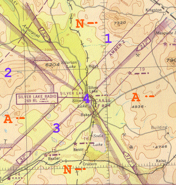 Scan of USCGS Mojave WAC chart, cropped around Silver Lake, with markings added